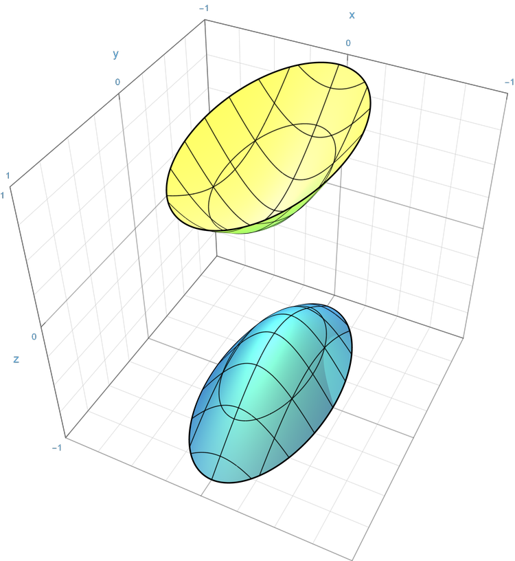 A two-sheeted hyperboloid. Made with Mathematica.